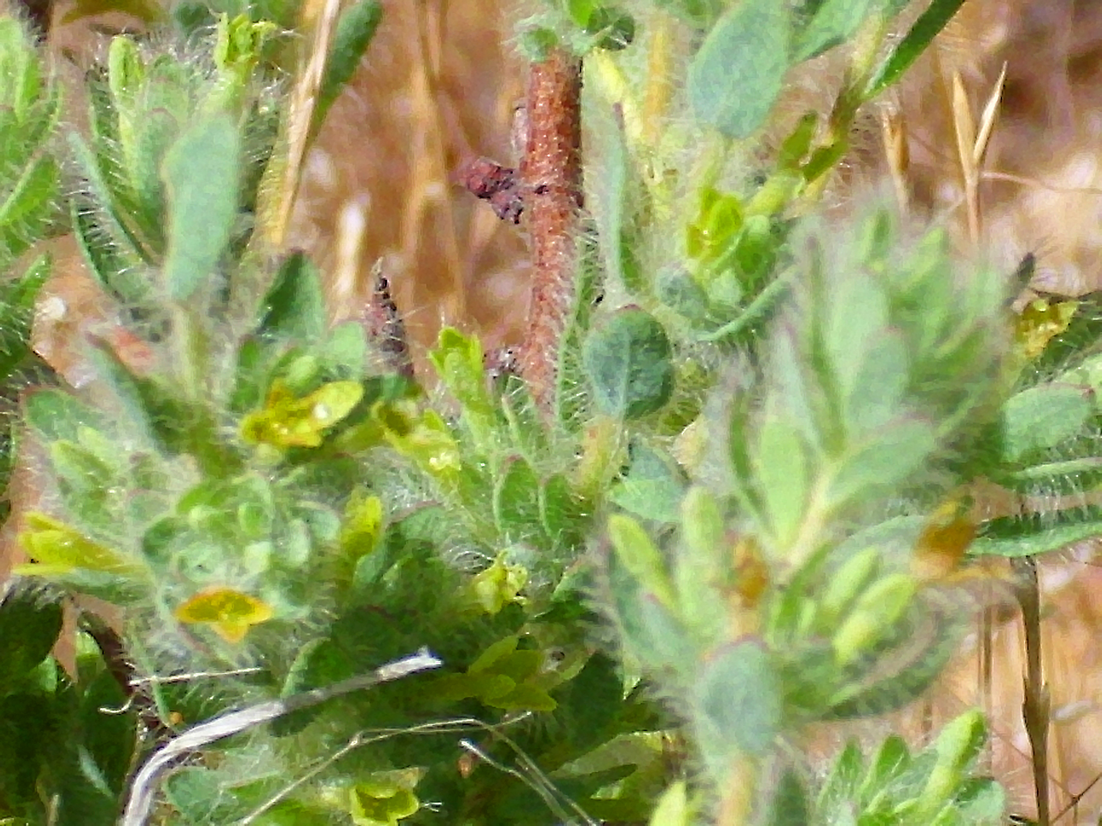 Thymelaea villosa flowers, Sierra Madrona, Spain